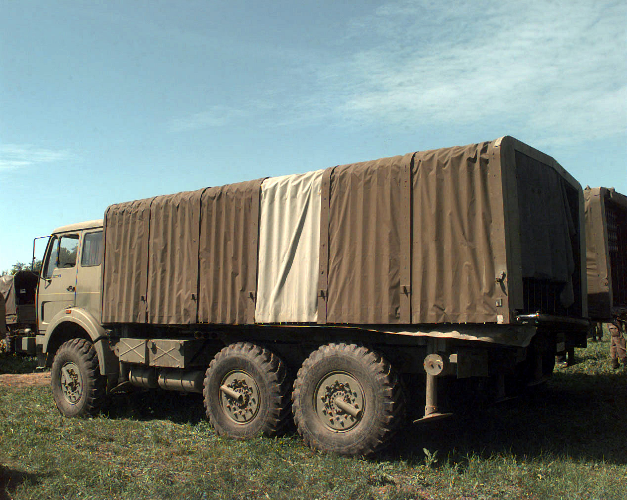 Inside these trucks are mounted Yugoslav 128mm (32-rd) rocket launchers M77, known as the Ognaj (Fire) belonging to the VRS mixed Artillery Regiment in Bijelina Barracks (CQ 600578). The Task Force Eagle Division Artillery Verification Inspection Team and soldiers from the Russian Brigade were on the site to conduct weapons inspection in accordance with D+120 GFAP requirements during Operation Joint Endeavor.